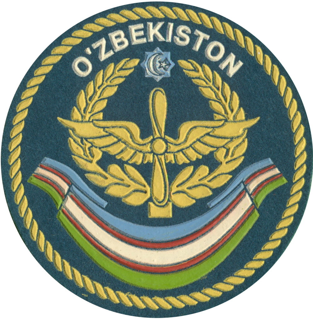 Shoulder patches of the Uzbebistan Air force